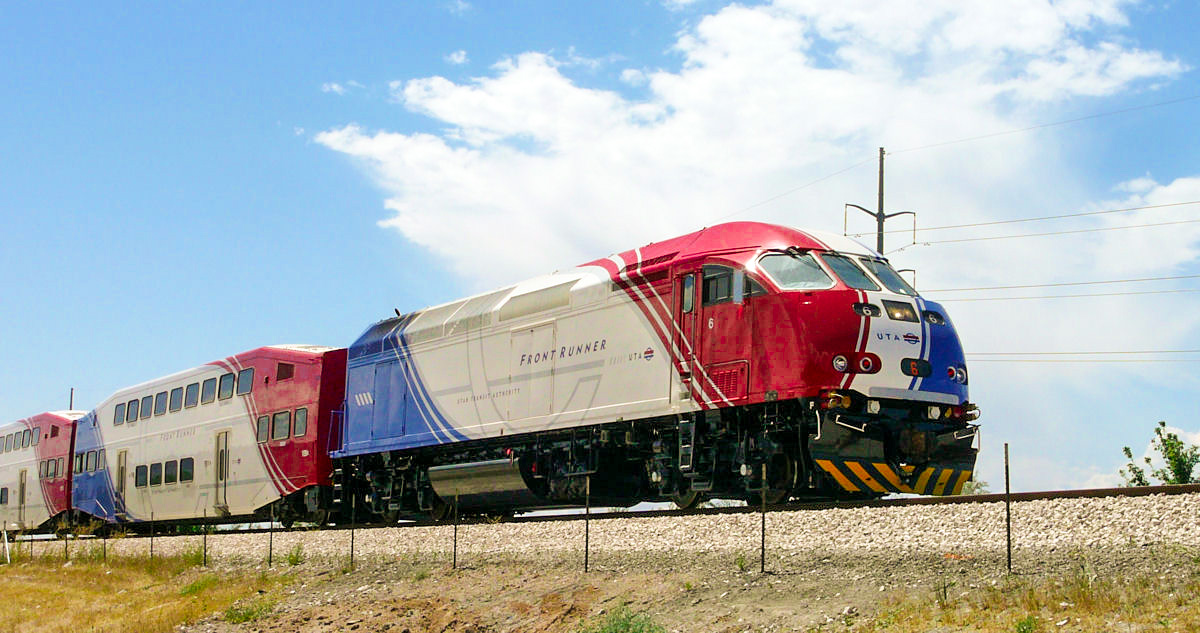 Sloooowly but surely commuter rail comes to Davis County...